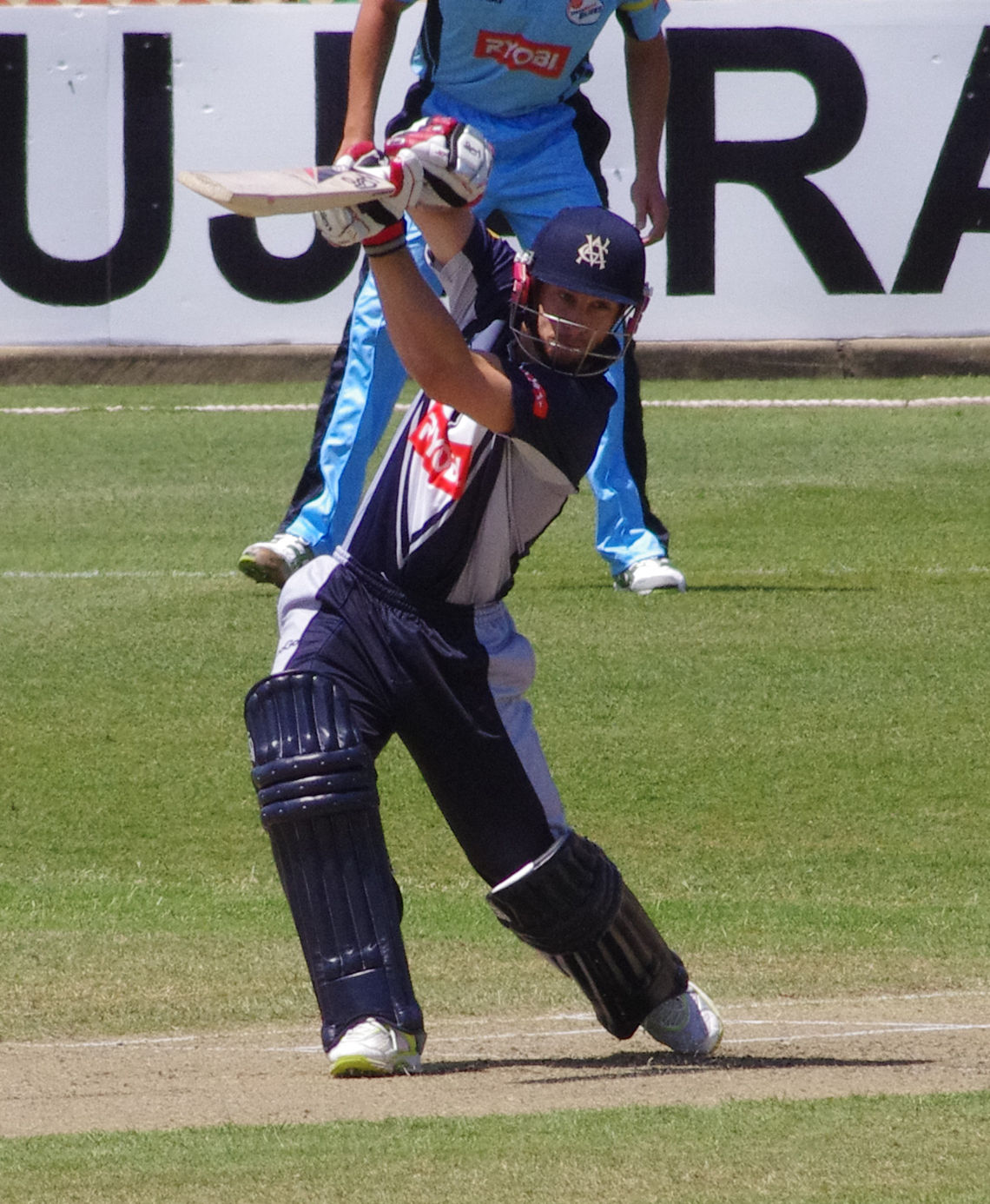 Australian cricketer Matthew Wade batting.